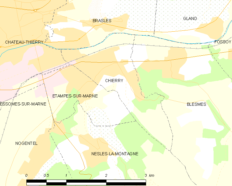 Map of French commune: Chierry Map commune FR insee code 02187.png